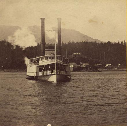 Steamer Oneonta on Columbia River 1867, probably near the Cascades.